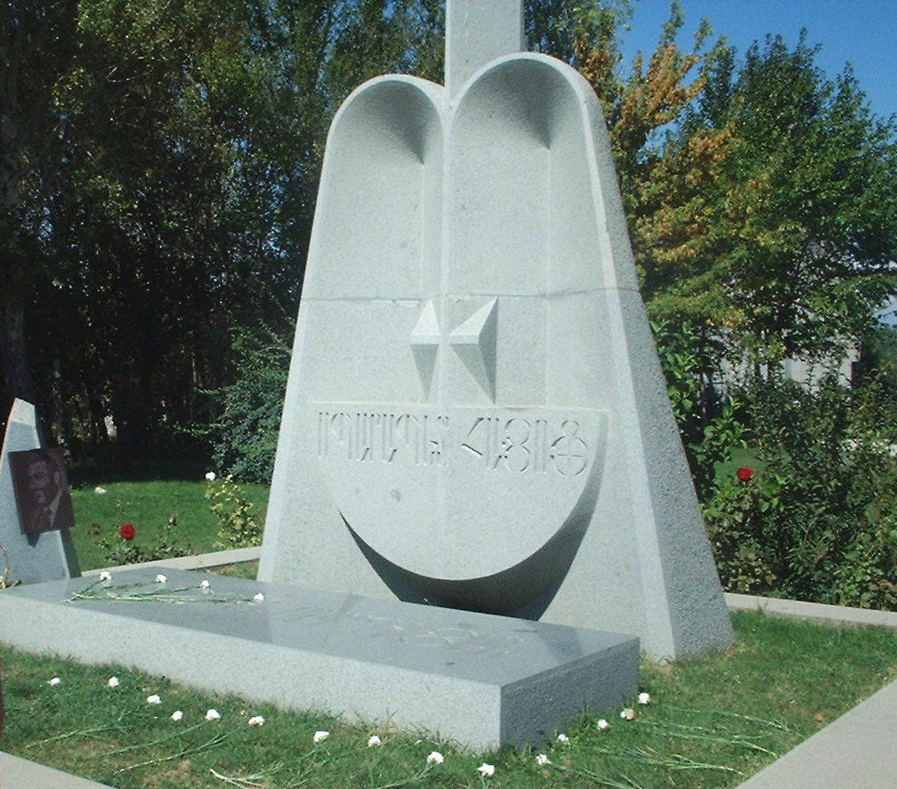 Vazgen Sarkissian tomb in Yerablur 7/1.3